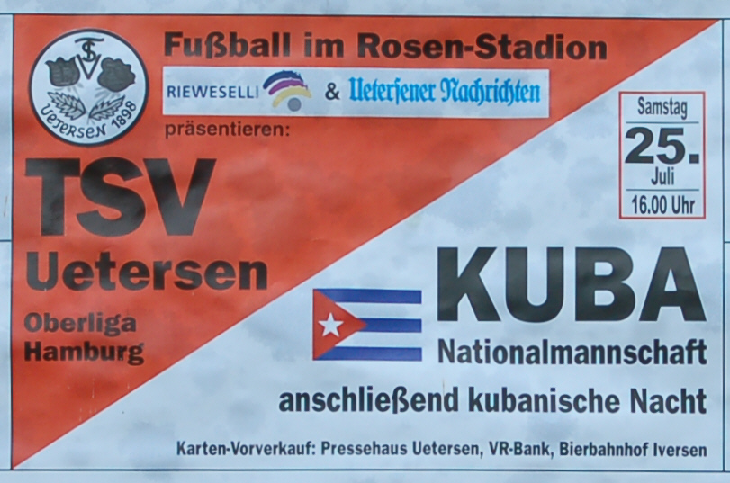 Public poster for TSV Uetersen game against the Cuban national football team on 25.07.2009.